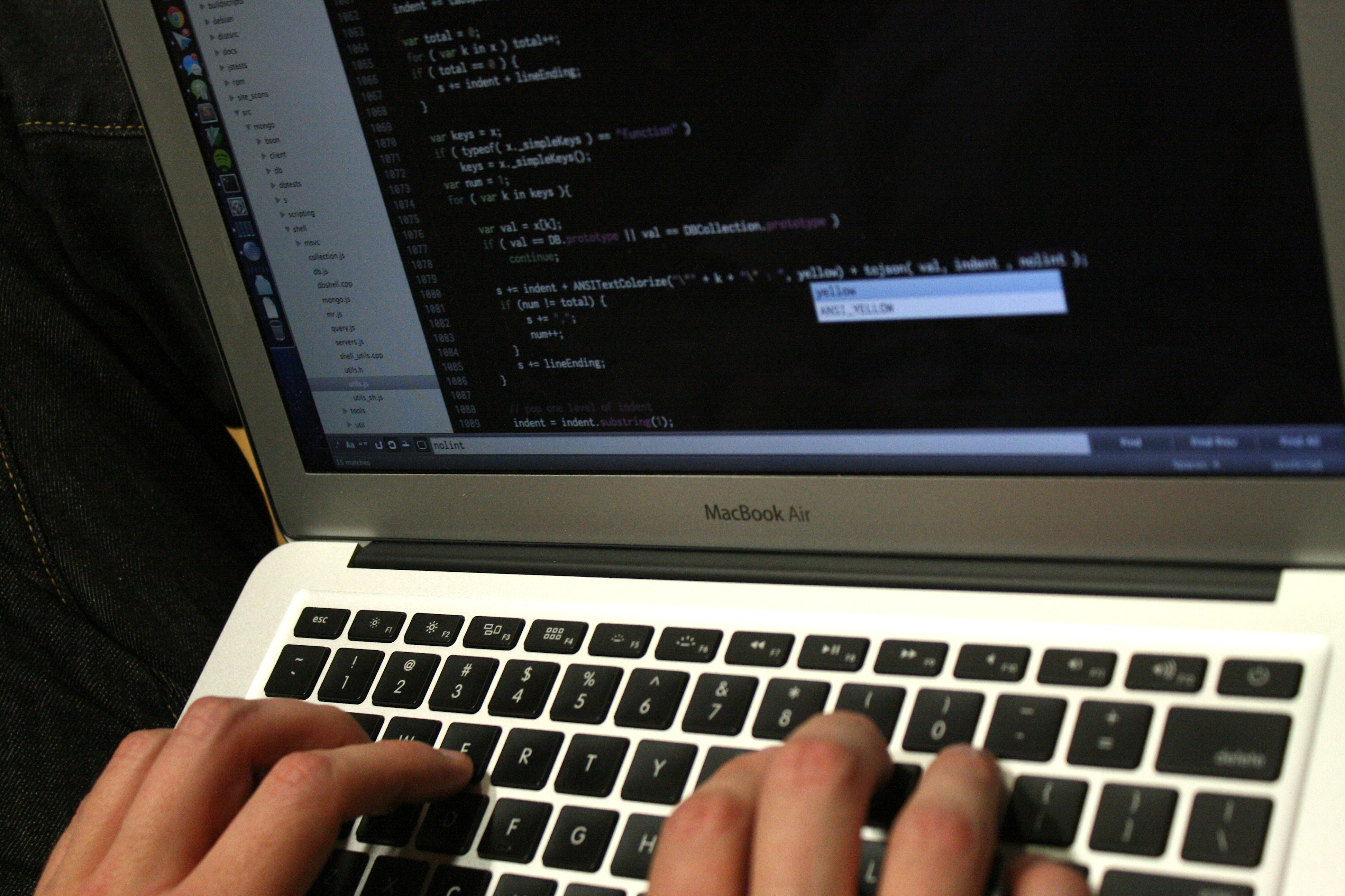 Student using the sublime text program to code html and css for some-type of website.